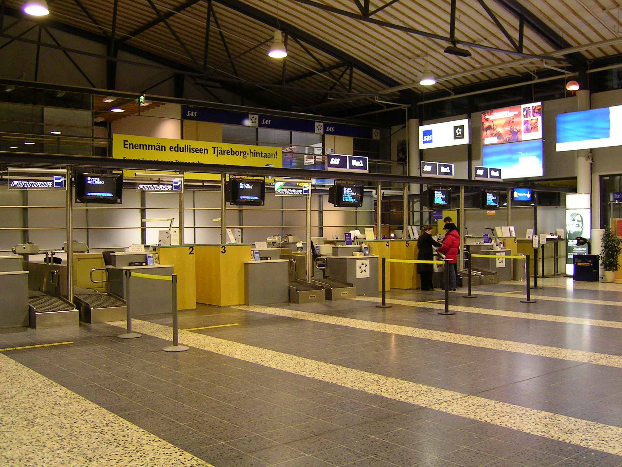 Tampere-Pirkkala Airport Terminal 1, in Pirkkala, Finland, check-in counters and departures hall.